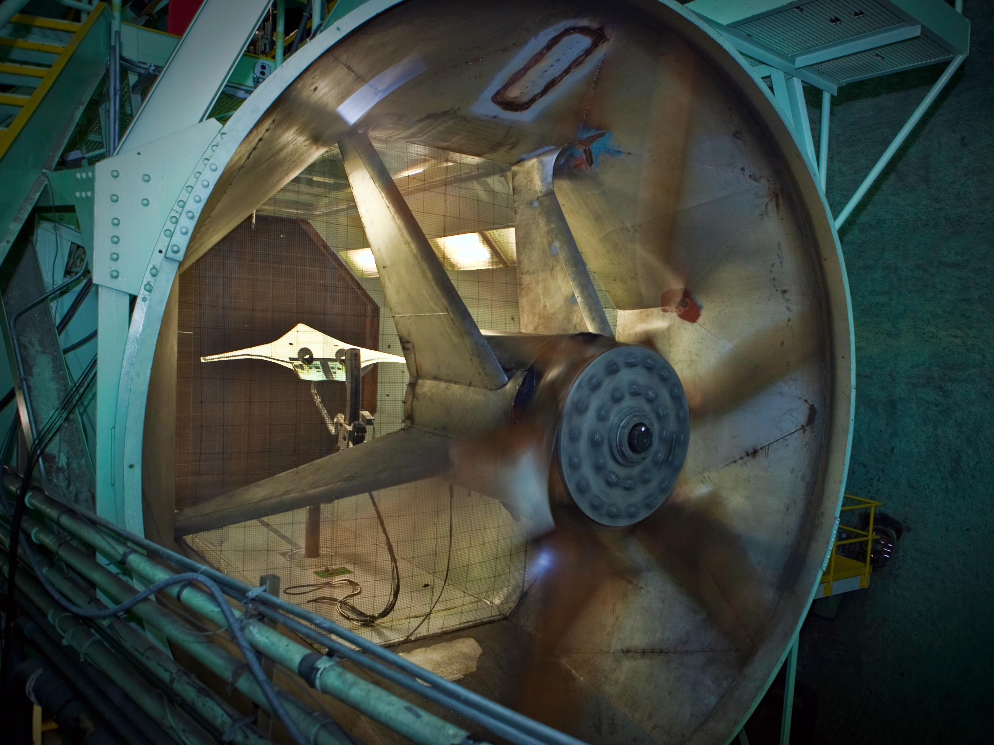 A three percent scale model of a blended wing body aircraft design recently was tested in NASA Langley's 12-Foot Low-Speed Tunnel. During the testing, engineers sought to clarify results from a previous test of the X-48C prototype in the Langley Full Scale Tunnel.